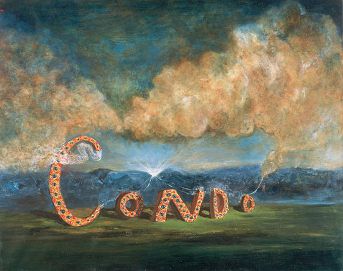 oil on canvas by George Condo